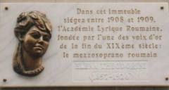 Placă pe zidul clădirii situate pe strada Tocqueville nr. 25 din Paris, arondismentul 17, unde și-a avut sediul Académie Lyrique Roumaine fondată de catre Elena Teodorini